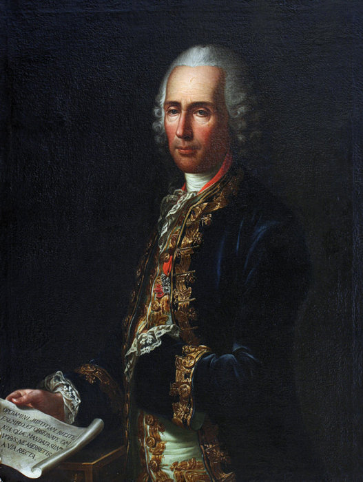 Karel Maxmilian Dietrichstein (painted by Josef Hickel, 1773, oil on canvas, 98 x 75 cm). Family collection of Dietrichsteins.